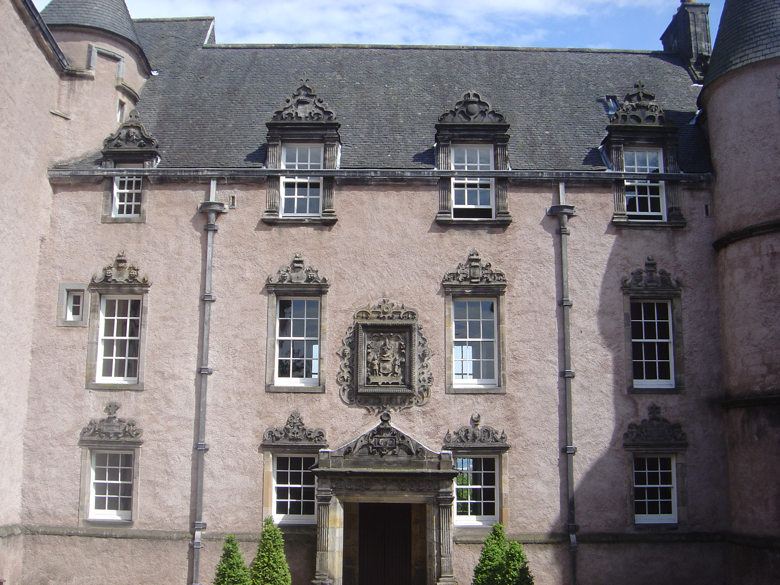 Argyll's Lodging, Stirling, Scotland